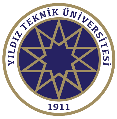 Yıldız Technical University Logo